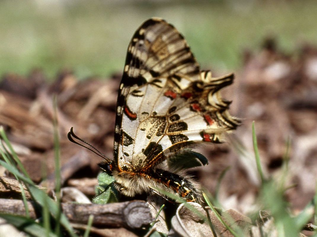 Eastern Festoon, Allancastria cerisyi, lateral view. - Western Turkey, Bafa lake.